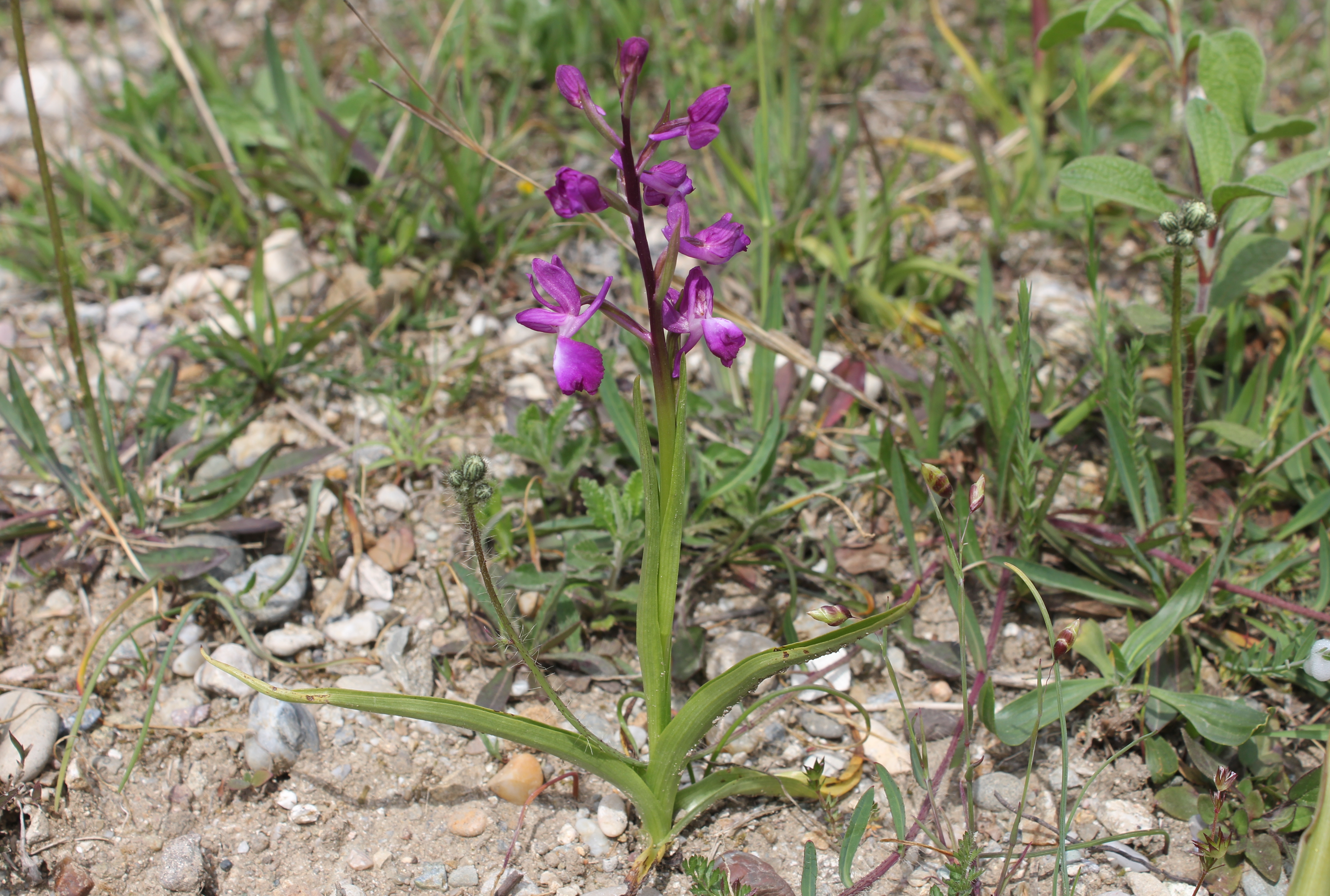 Anacamptis laxiflora scape